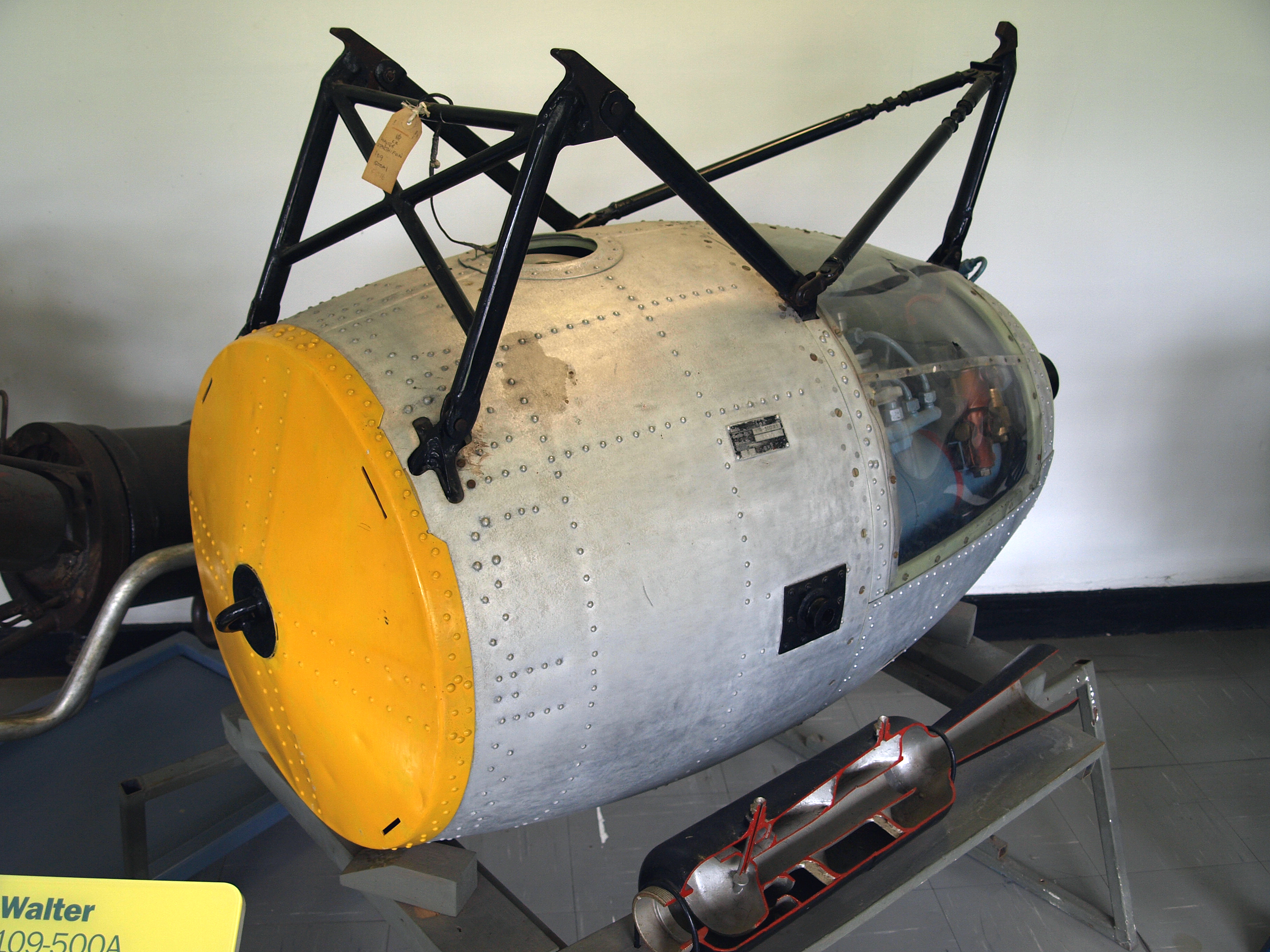 Walter HWK 109-500 aircraft rocket motor on display at the Royal Air Force Museum Cosford.